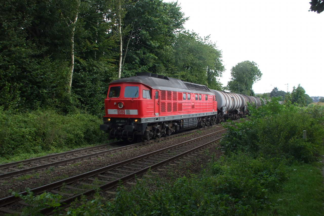 DB 241 801 (rebuilt for Belgium) with Freight train